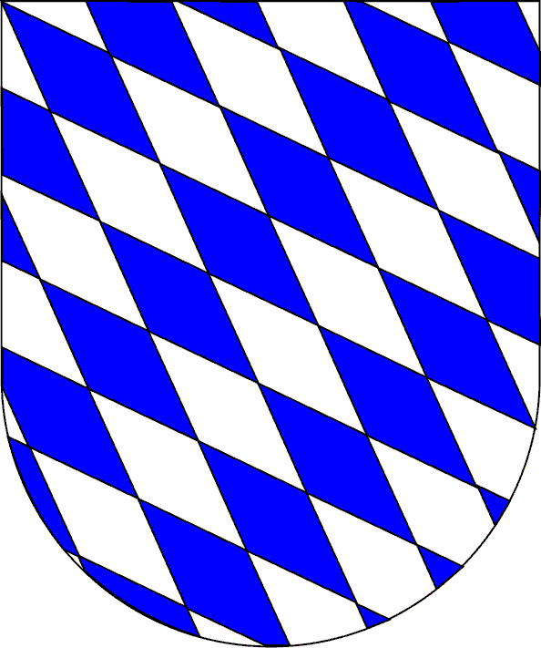 Coat of arms of Bavaria